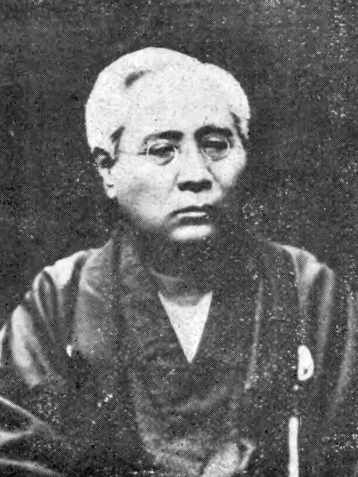 Takamine Chōkyō.